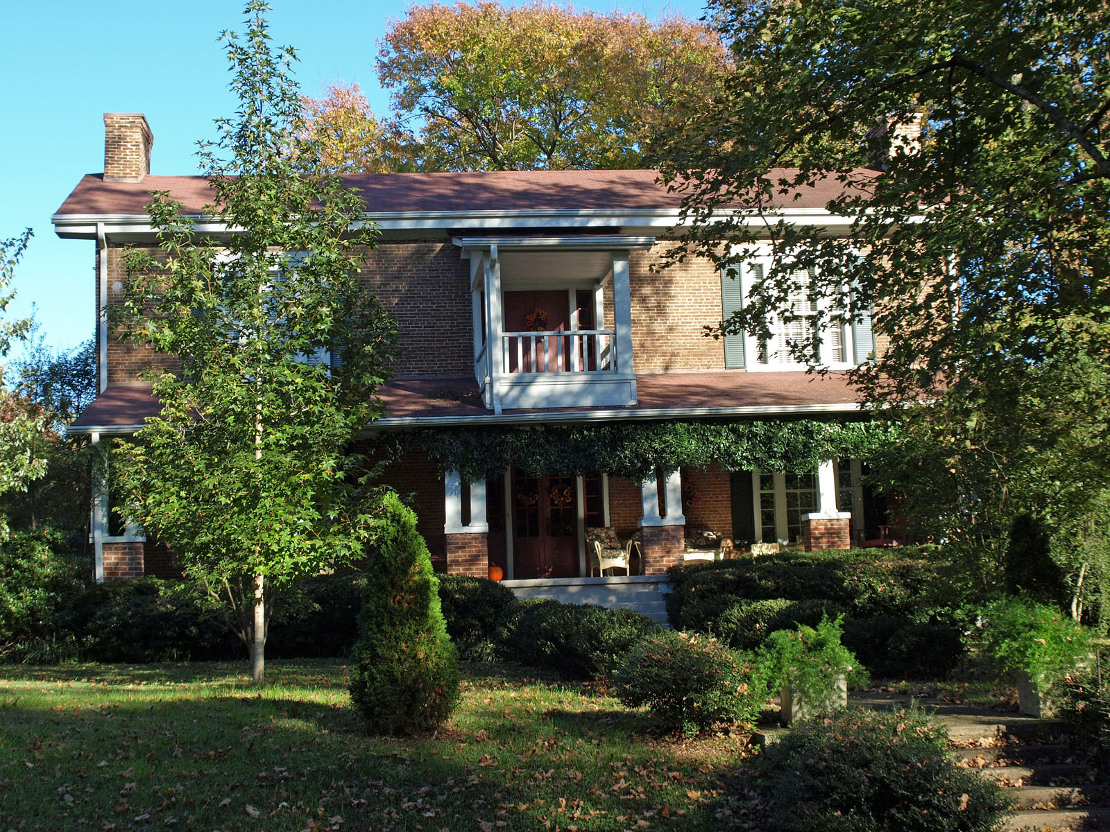 The Steger House in Maysville, Alabama, listed on the National Register of Historic Places.